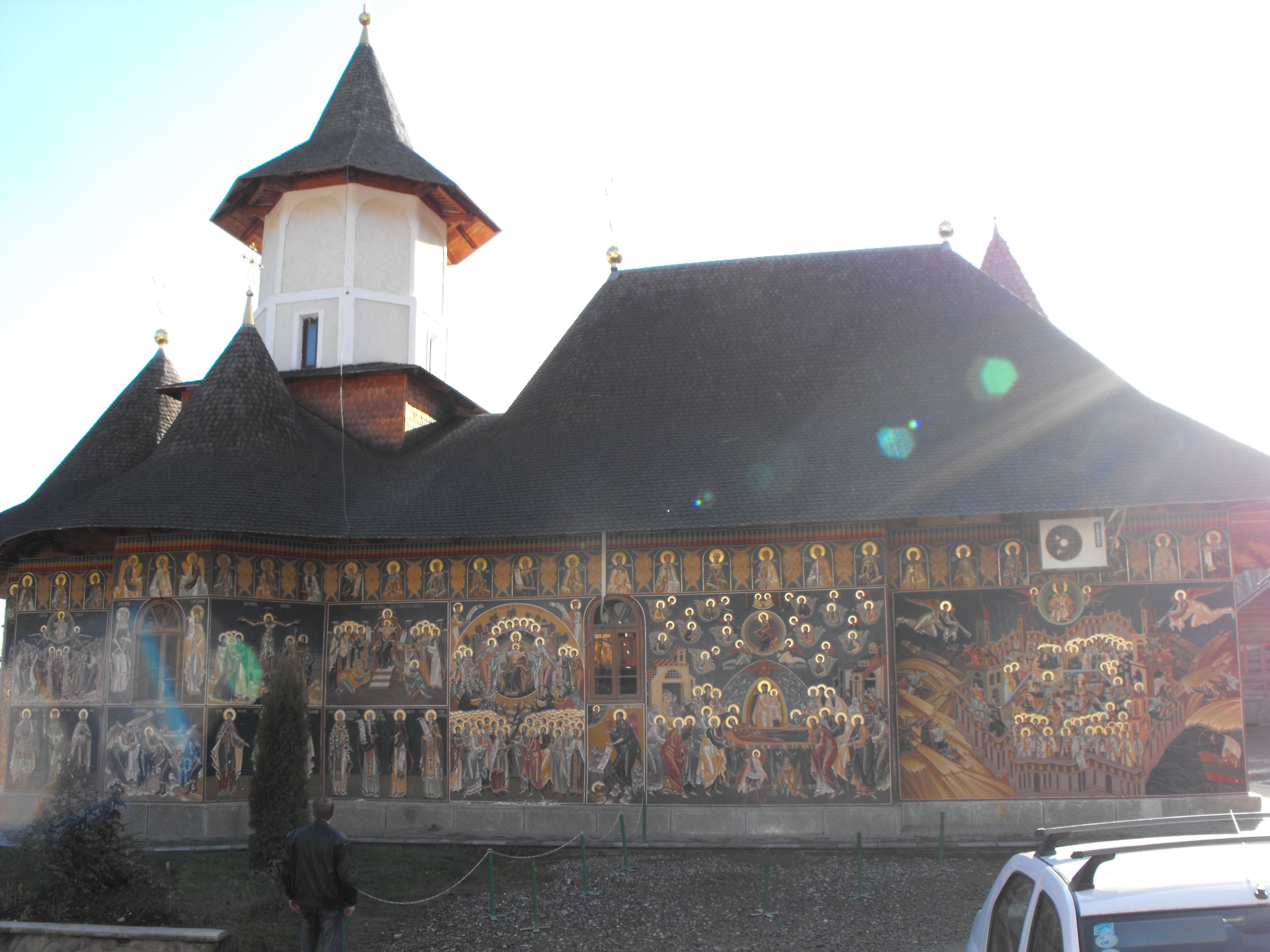 Petru Voda Monastery - North side